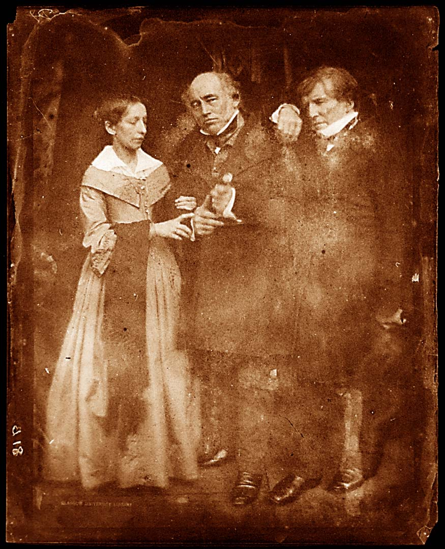 Painter William Etty (right), his brother Charles Etty (centre) and his niece Elizabeth (Betsy) Etty (left)